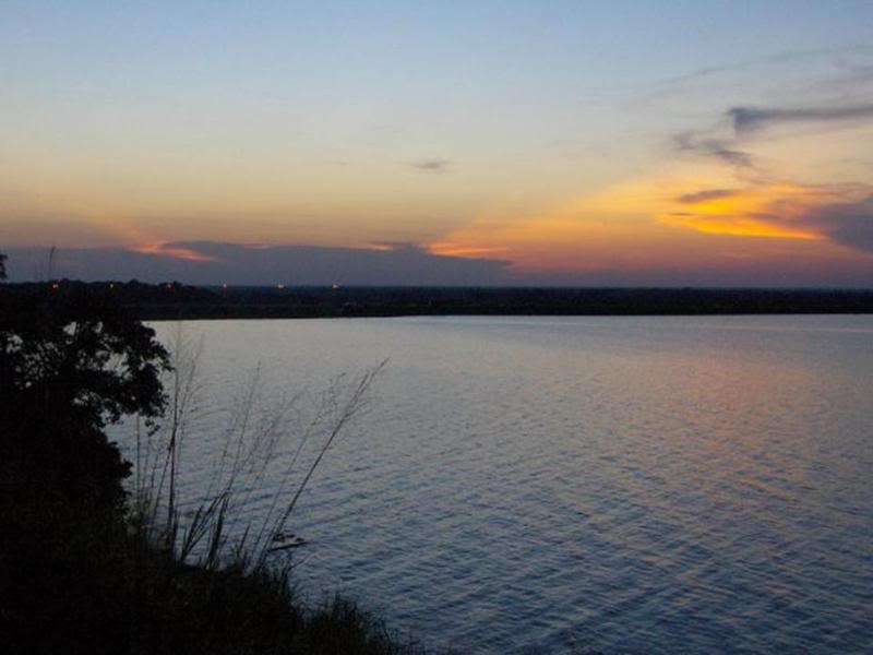 work